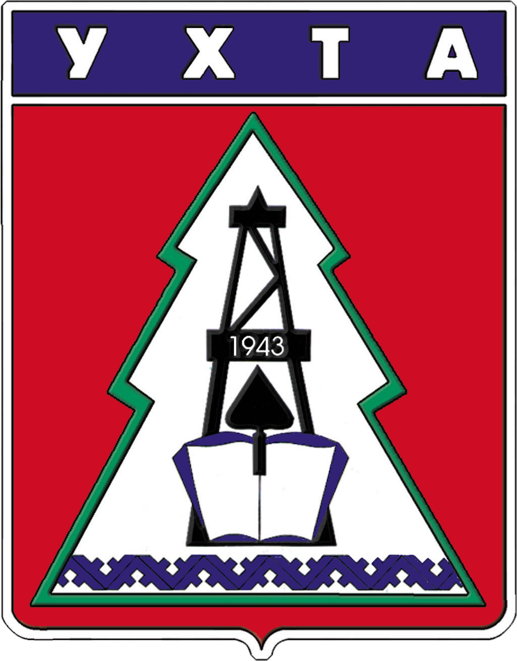 Ukhta (Komia), coat of arms (1979)